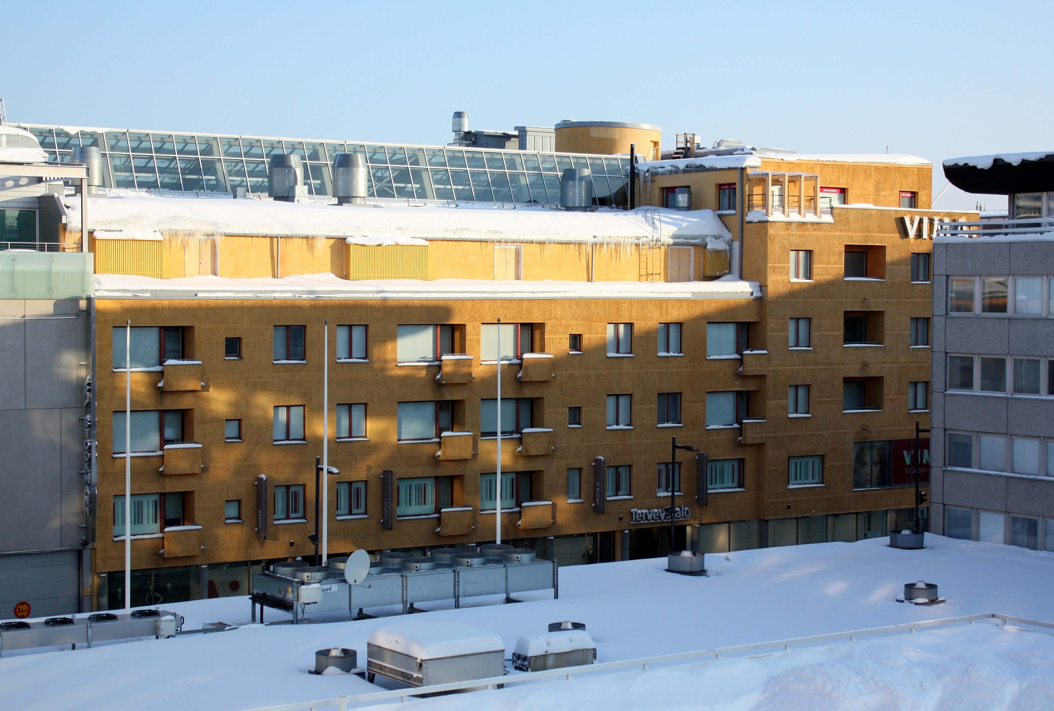 Rautatalo (i.e. ironhouse) in Oulu. The building was designed by architects Martta and Ragnar Ypyä in 1941 but it was not completed until 1947.